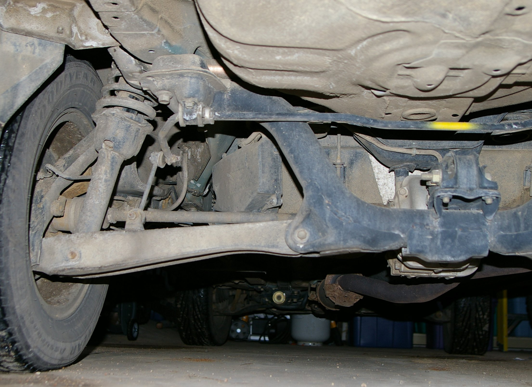 The independent rear suspension in an AWD car, the Honda CRV.